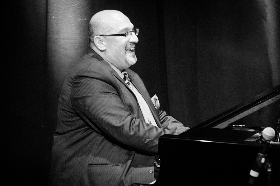 Marian Petrescu at Cosmopolite. The concert was part of Djangofestivalen and took place on 19. January 2018 in Oslo. Lineup: Florin Niculescu (violin), Marian Petrescu (piano), Mihai Petrescu (double bass), Håkon Mjåset Johansen (drums) and Olli Sokkeili (guitar).